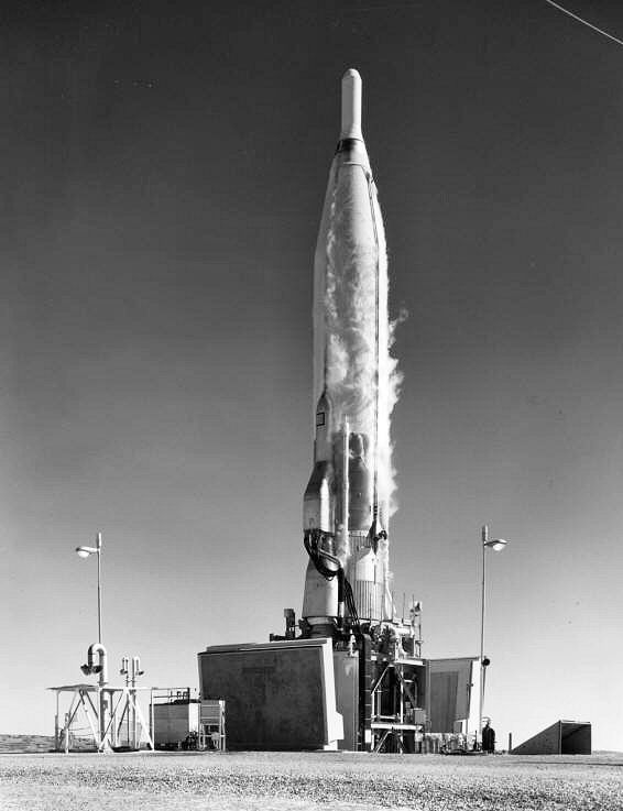 Convair SM-65F Atlas 102 579 SMS Site 11f Arroyo Macho del NM 14 Oct 1962